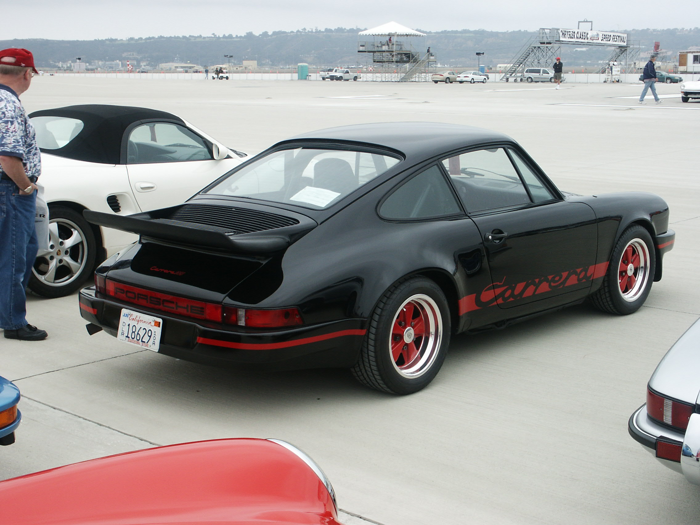 Black/Red Porsche 911 Carrera coupé at the Festival of Speed.PICT0058